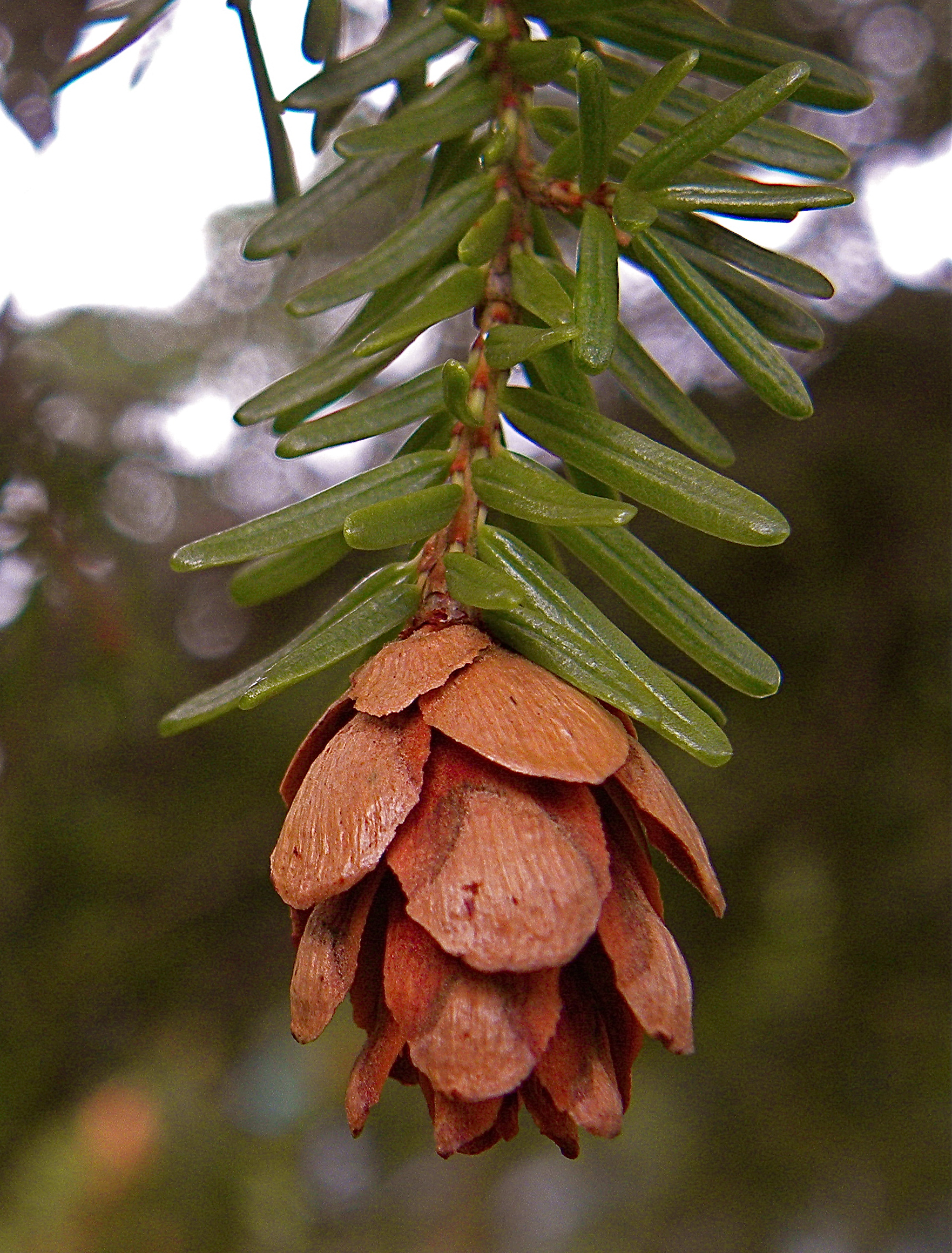 Tsuga heterophylla cone. Mount Washington, Washington State, USA.